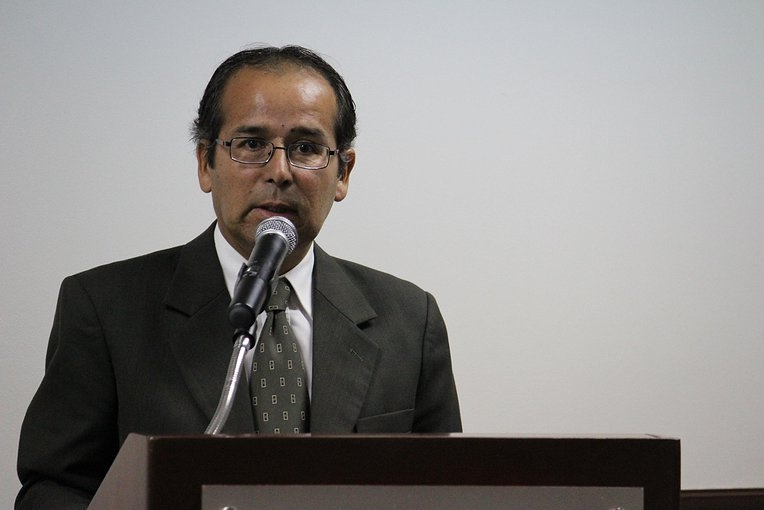 Human rights lawyer Ronald Gamarra